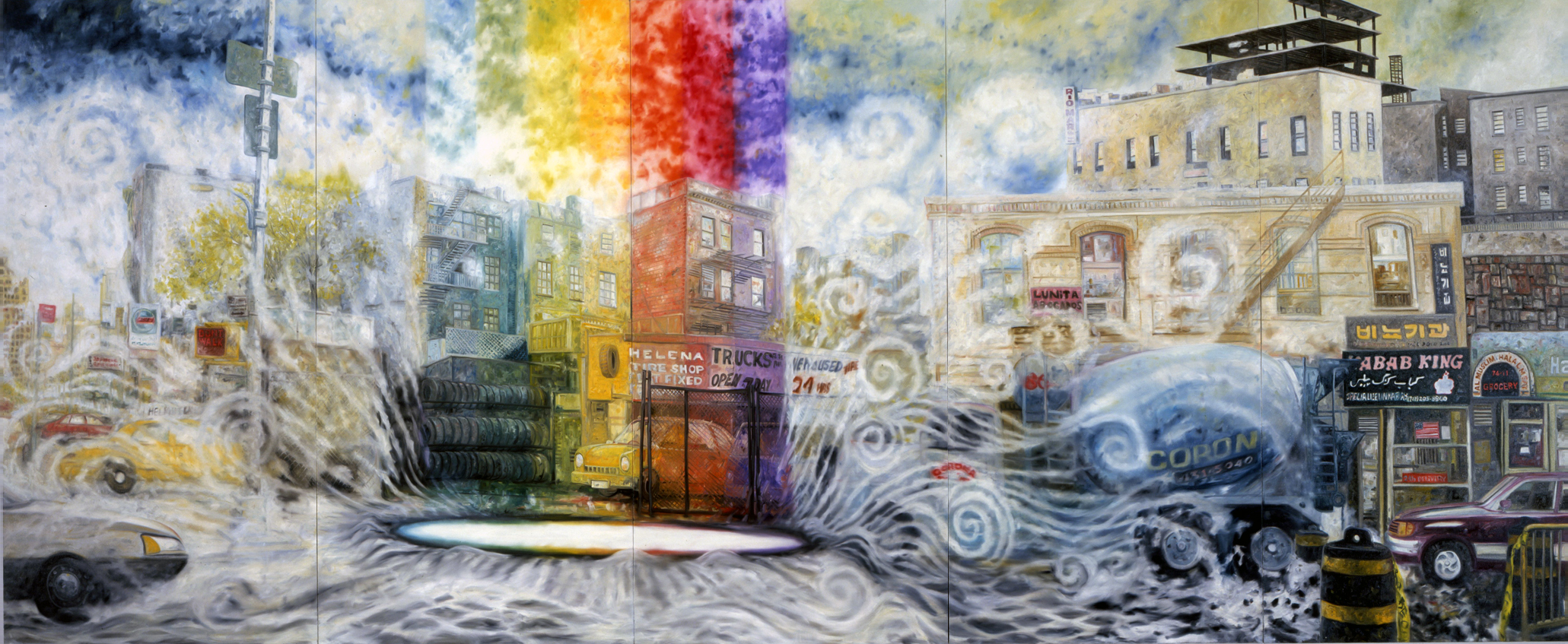 Oil on canvas, 227 x 555 cm / 90 x 220 inches, Takamatsu City Museum of Art collection, Kagawa. Image courtesy: ©Oscar Oiwa Studio, NY.